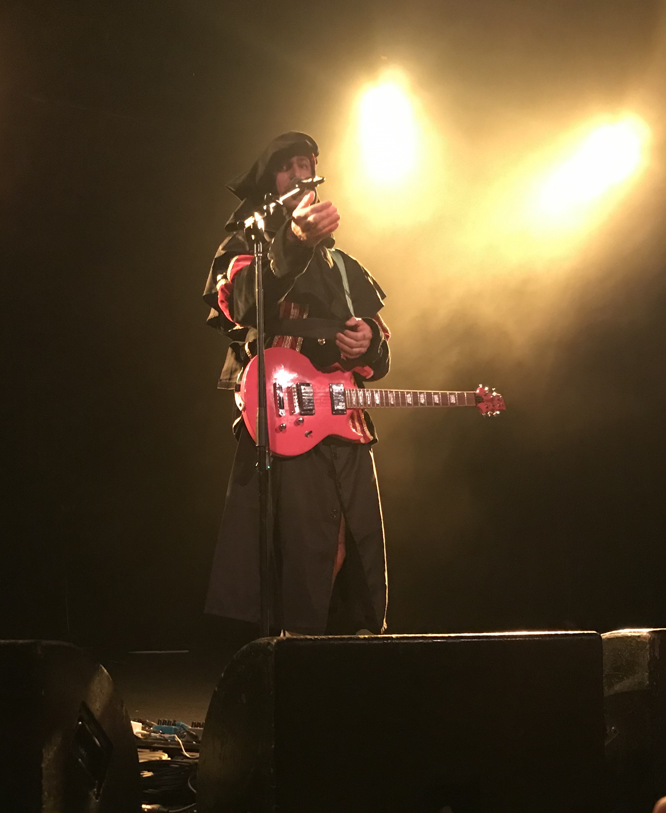 Artist Kirin J Callinan 2019 Sydney performance